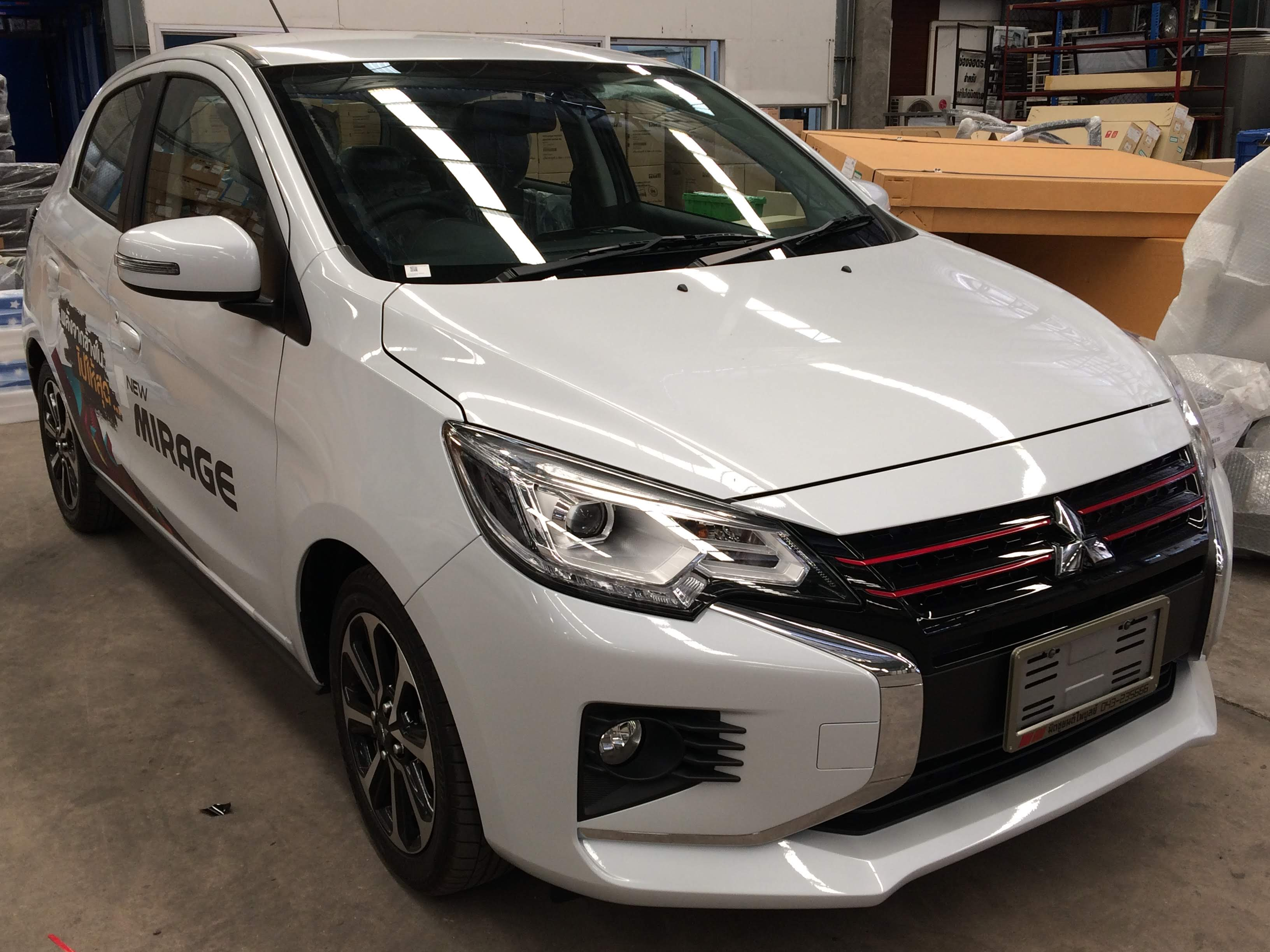 2019 Mitsubishi Mirage 1.2 GLS in Khon Kaen, Thailand.